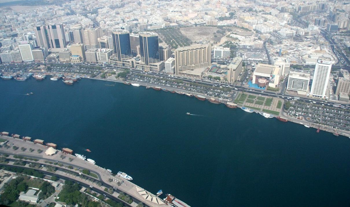 This is a photo of the Rigga Al Buteen area of Deira (at the top of the image) in Dubai, United Arab Emirates on 18 October 2007. The body of water is Dubai Creek. The area on the other side of Dubai Creek is Bur Dubai. The photo was taken from a helicopter ride courtesy of Nakheel